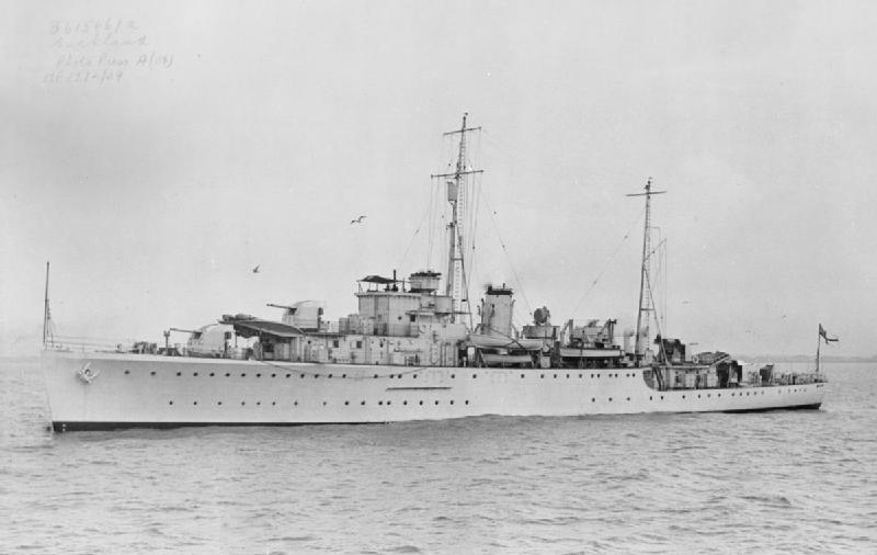 Photograph of British Egret class sloop HMS Auckland underway off Spithead.